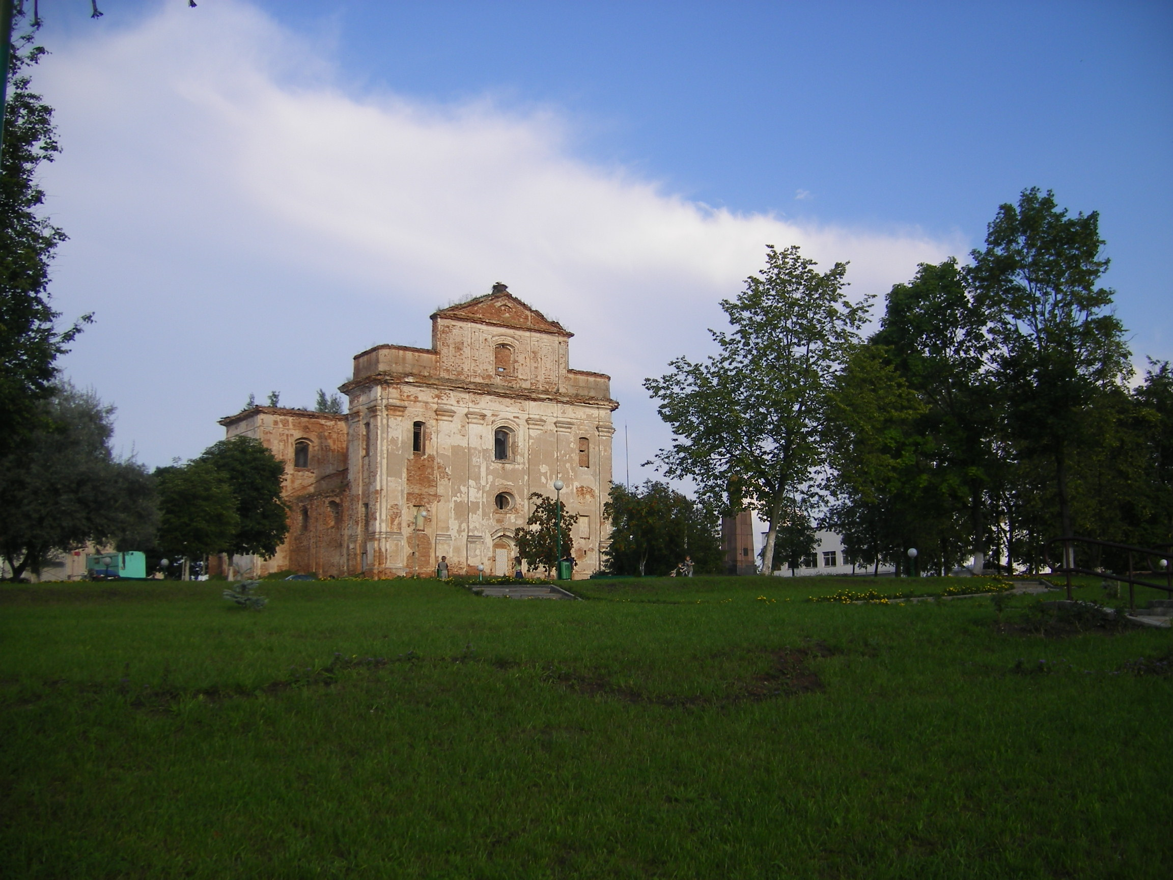 Vyalikaya Berastavitsa, church of Carmelites костел Визитации Девы Марии